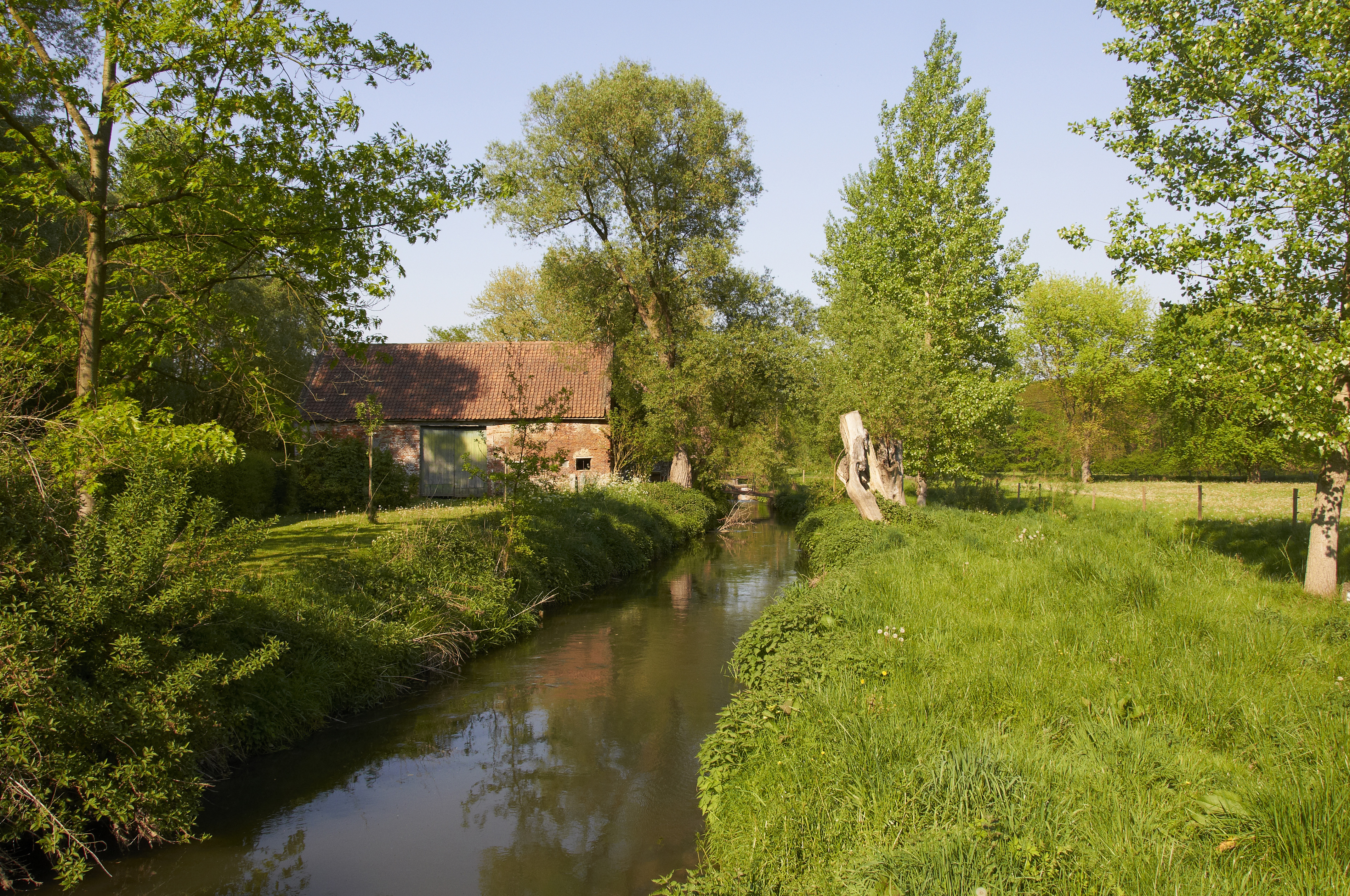 The river Lane in Terlanen, Belgium